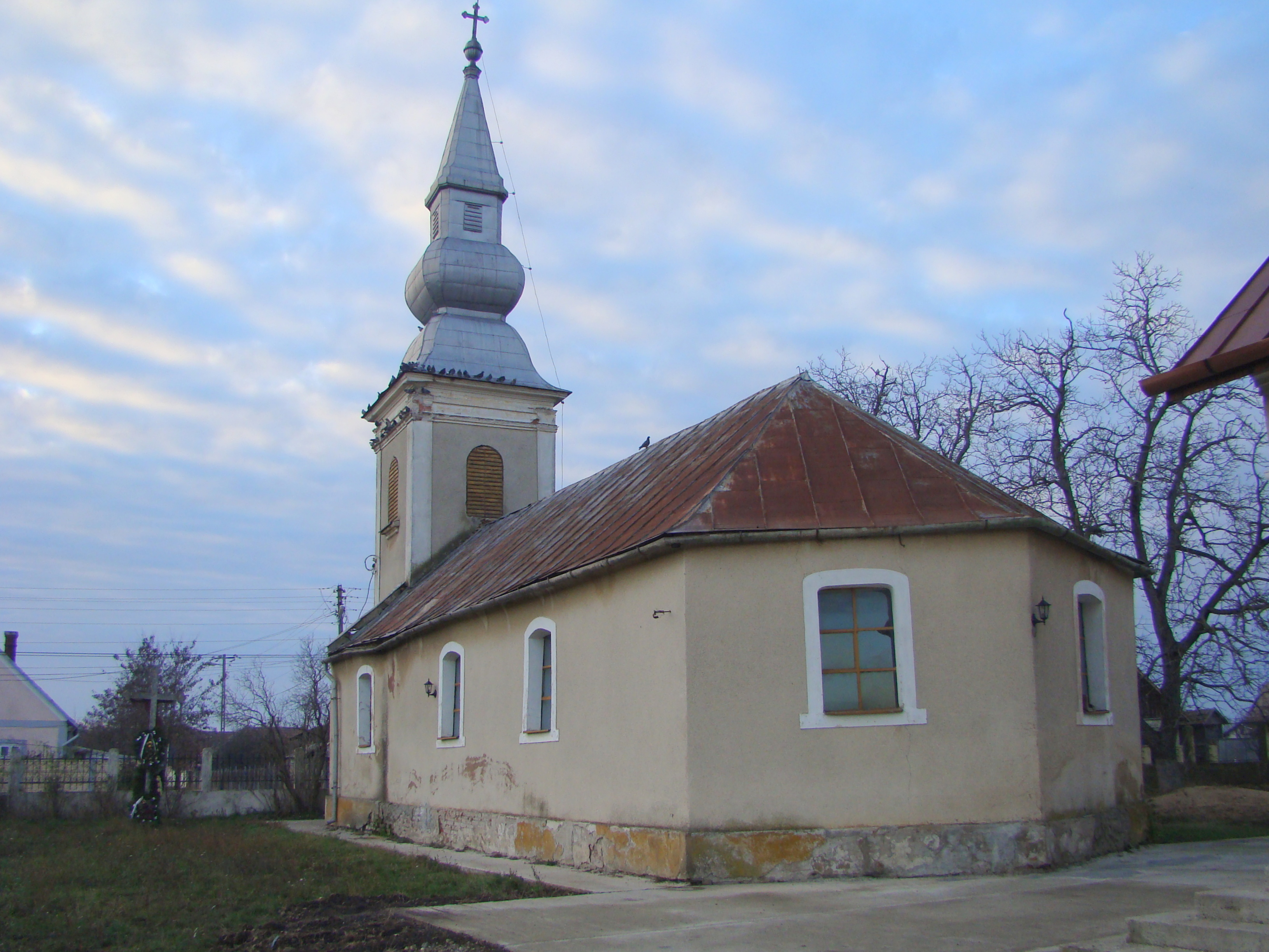 Archangels' church in Inand, Bihor county, Romania